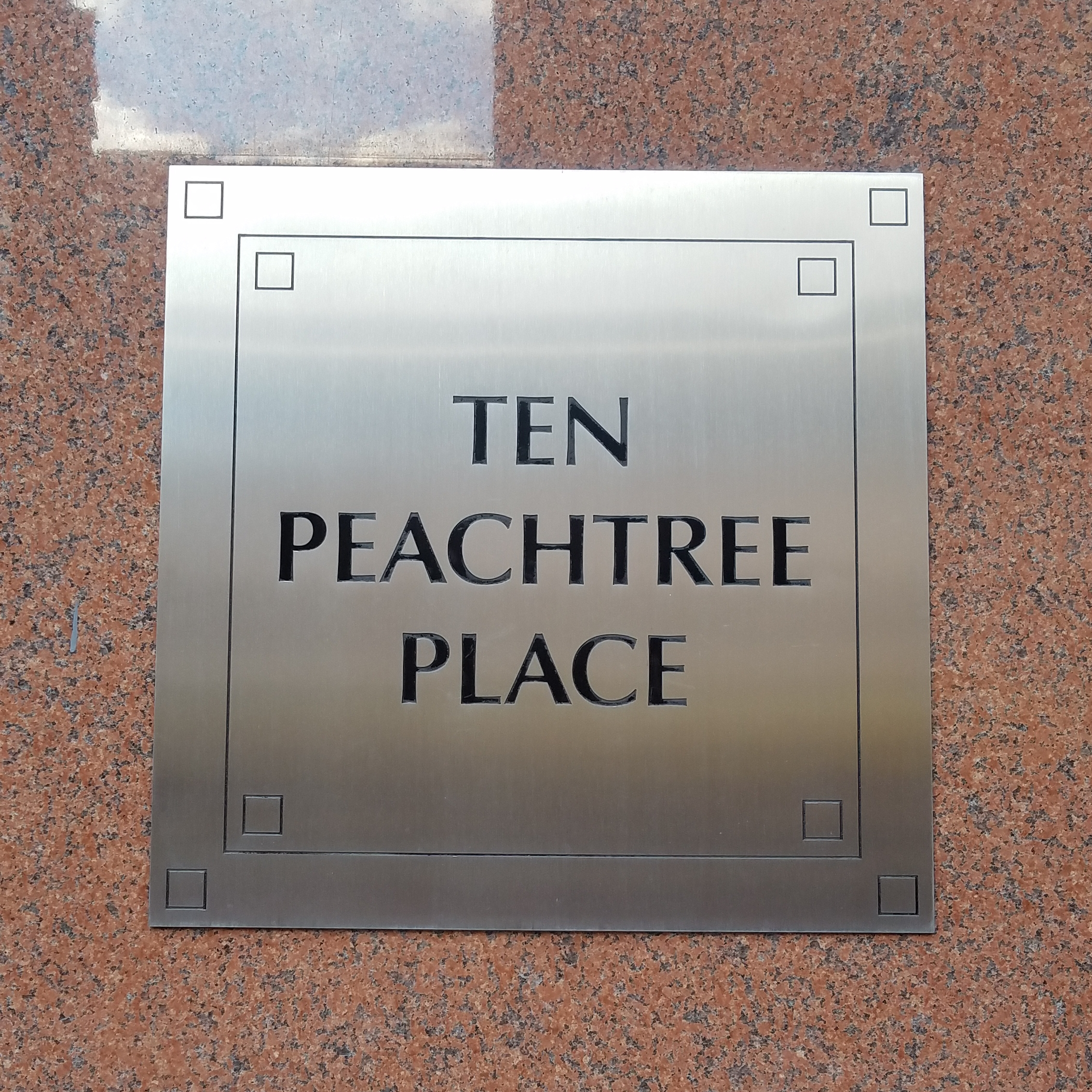 Sign for Ten Peachtree Place in Atlanta, Georgia.